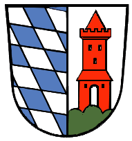 Coat of Arms of the City of Günzburg, Germany